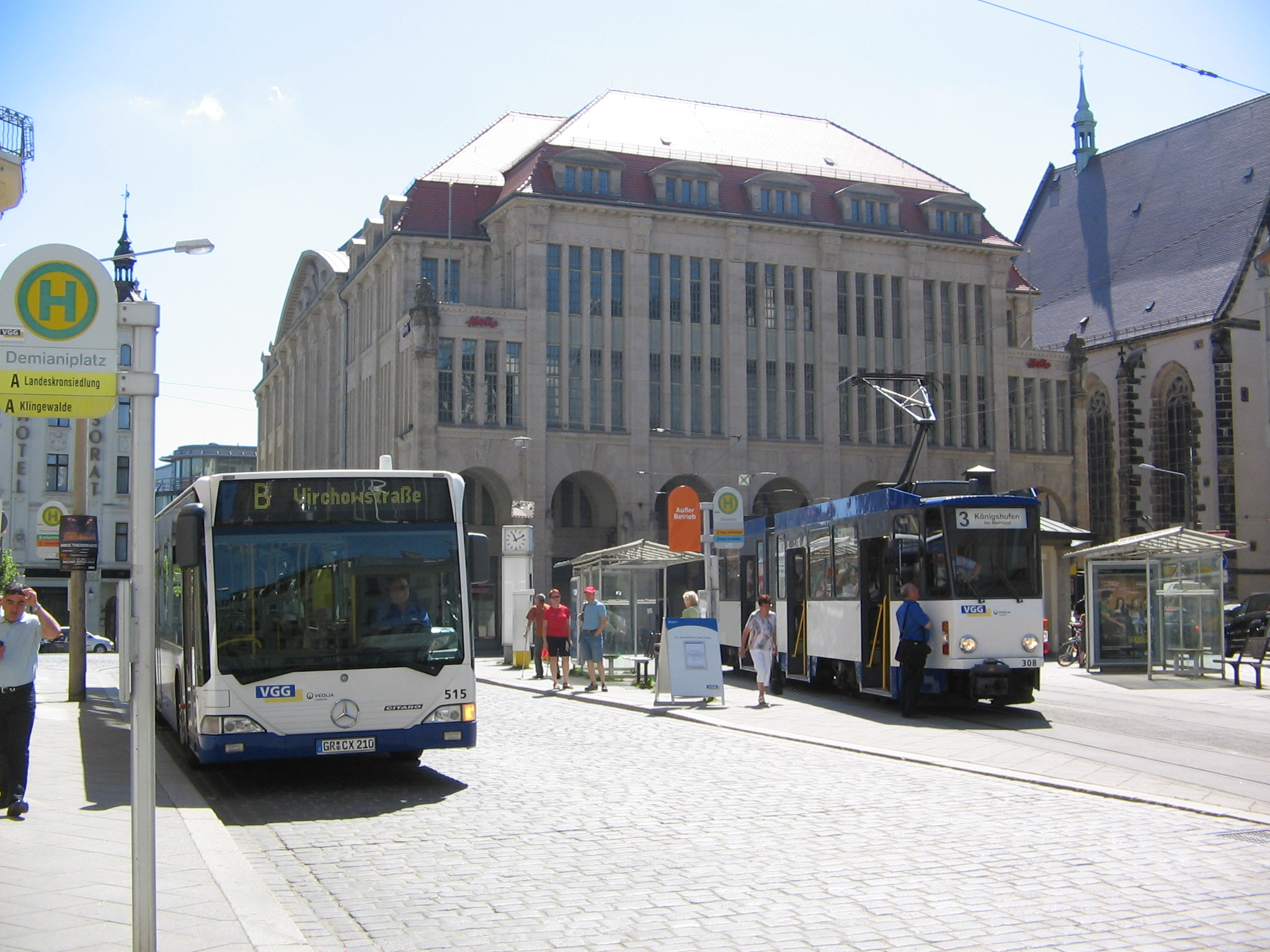 Streetcar No. 308 and bus No. 515 at stop Demianiplatz.